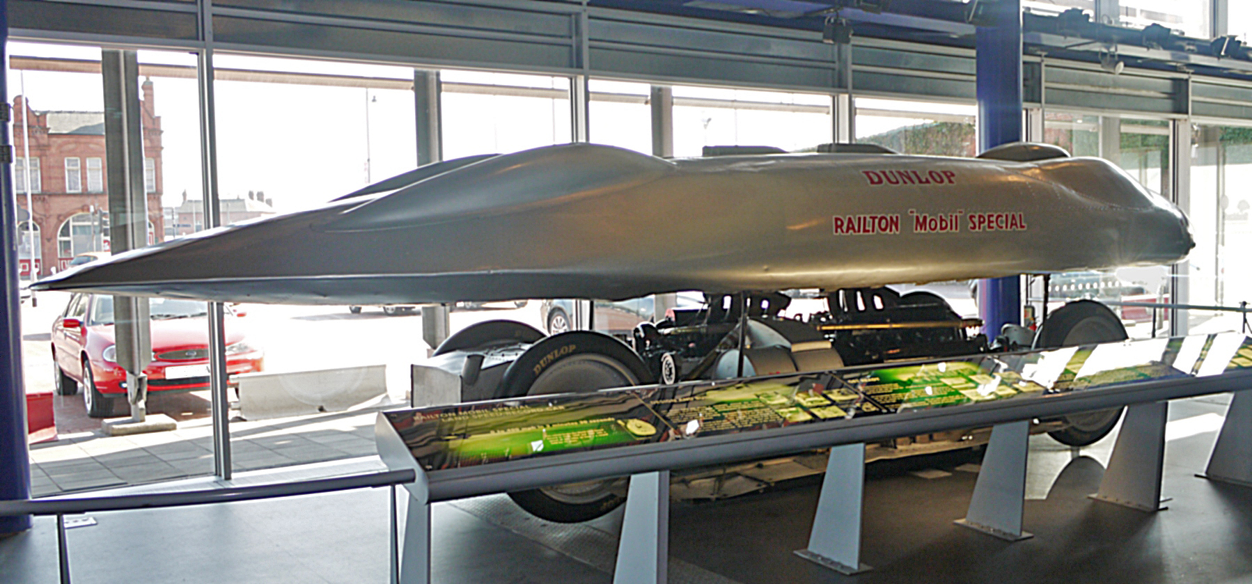 Photo of the Railton Mobil Special on display at the Thinktank museum in Birmingham with the shell raised above the rest of the car.